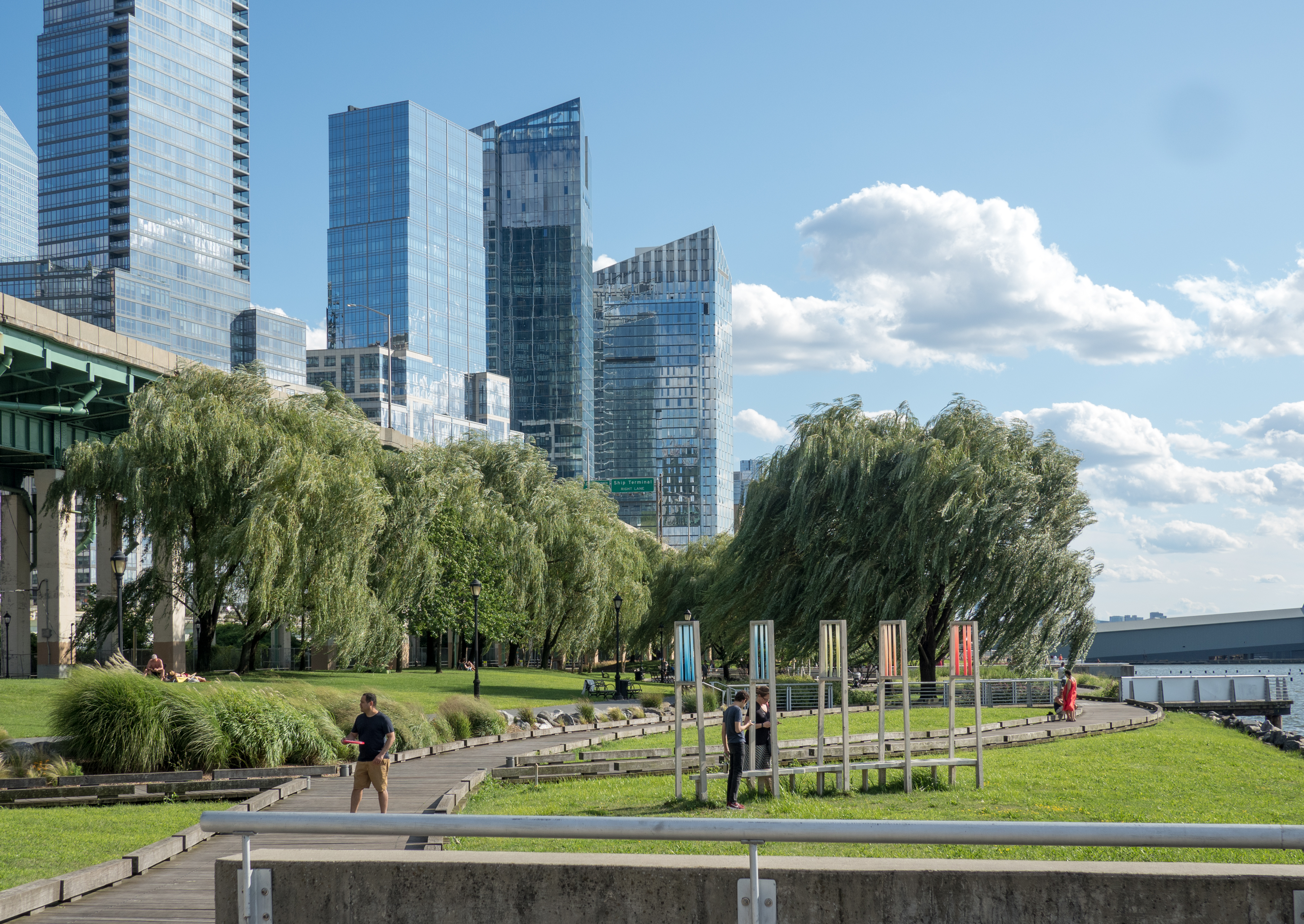 Riverside Park South looking south towards Waterline Square